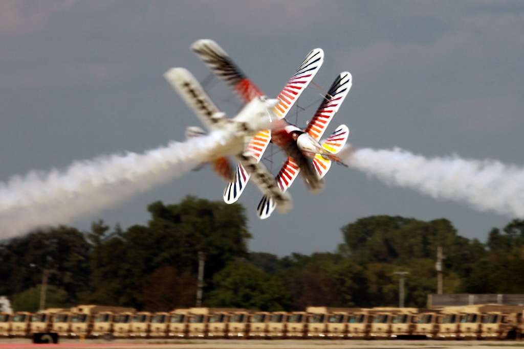 Iron Eagles display team with their trademark "low & close" aerobatic routine. Oshkosh July 2012